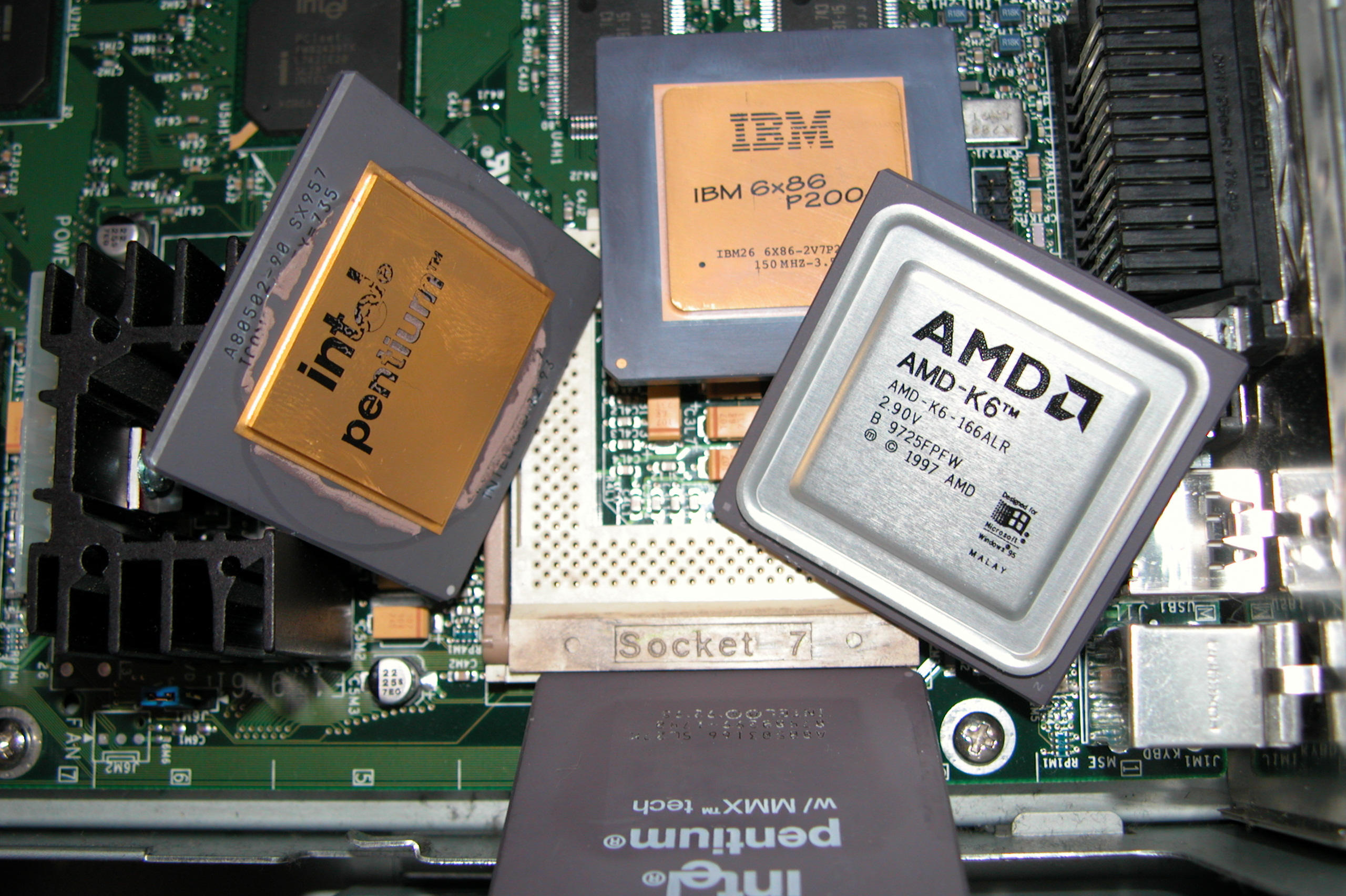 socket7 cpus from AMD, Intel and IBM